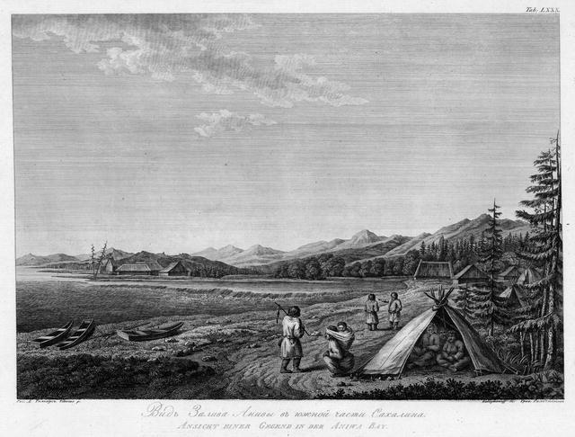 The coast of Aniva Bay (1805) The engraving by Wilhelm Gottlieb Tilesius von Tilenau